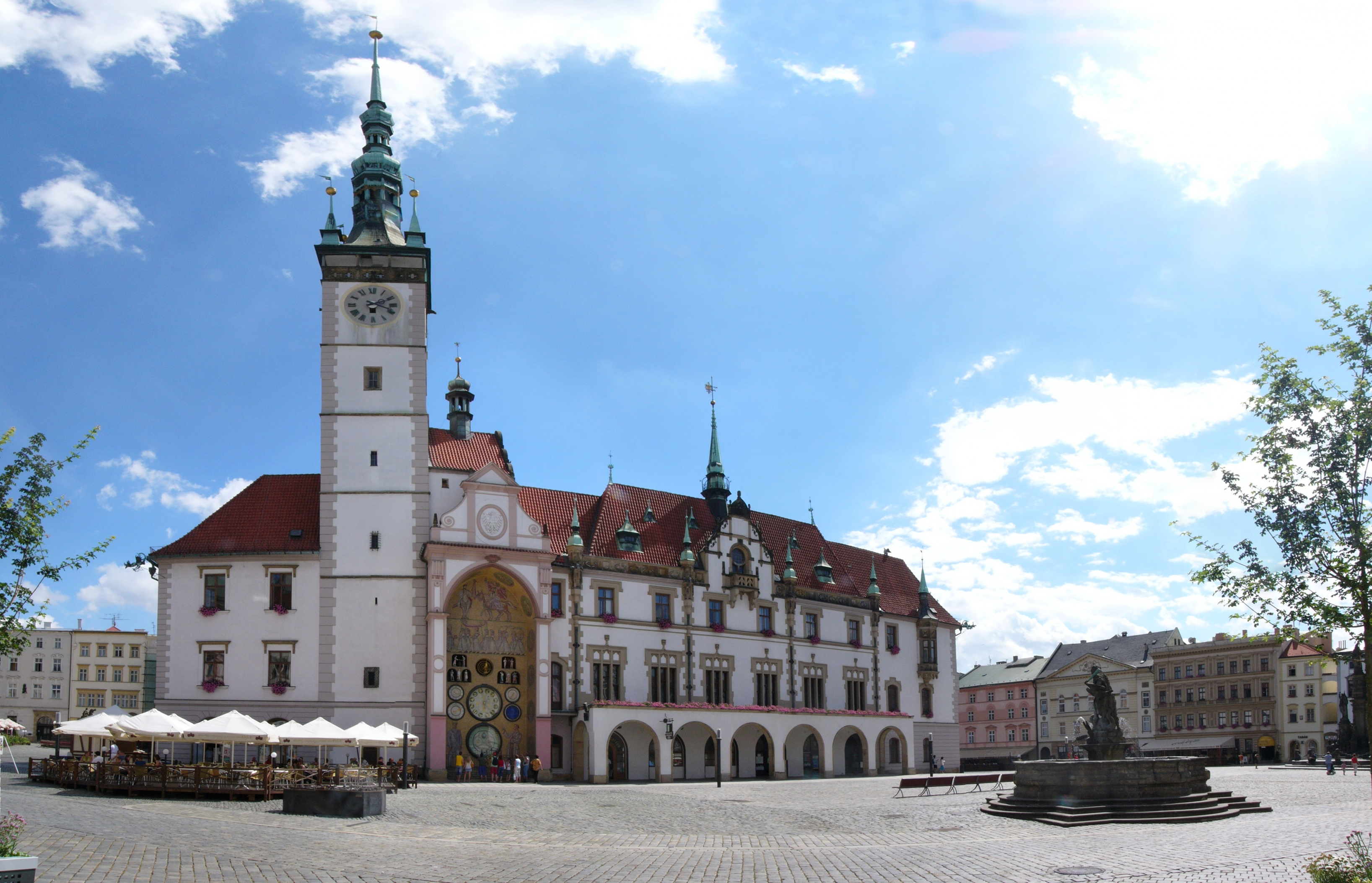 town hall in Olomouc (Czech Republic) with astronomical clock. There is fountain of Hercules on the right.